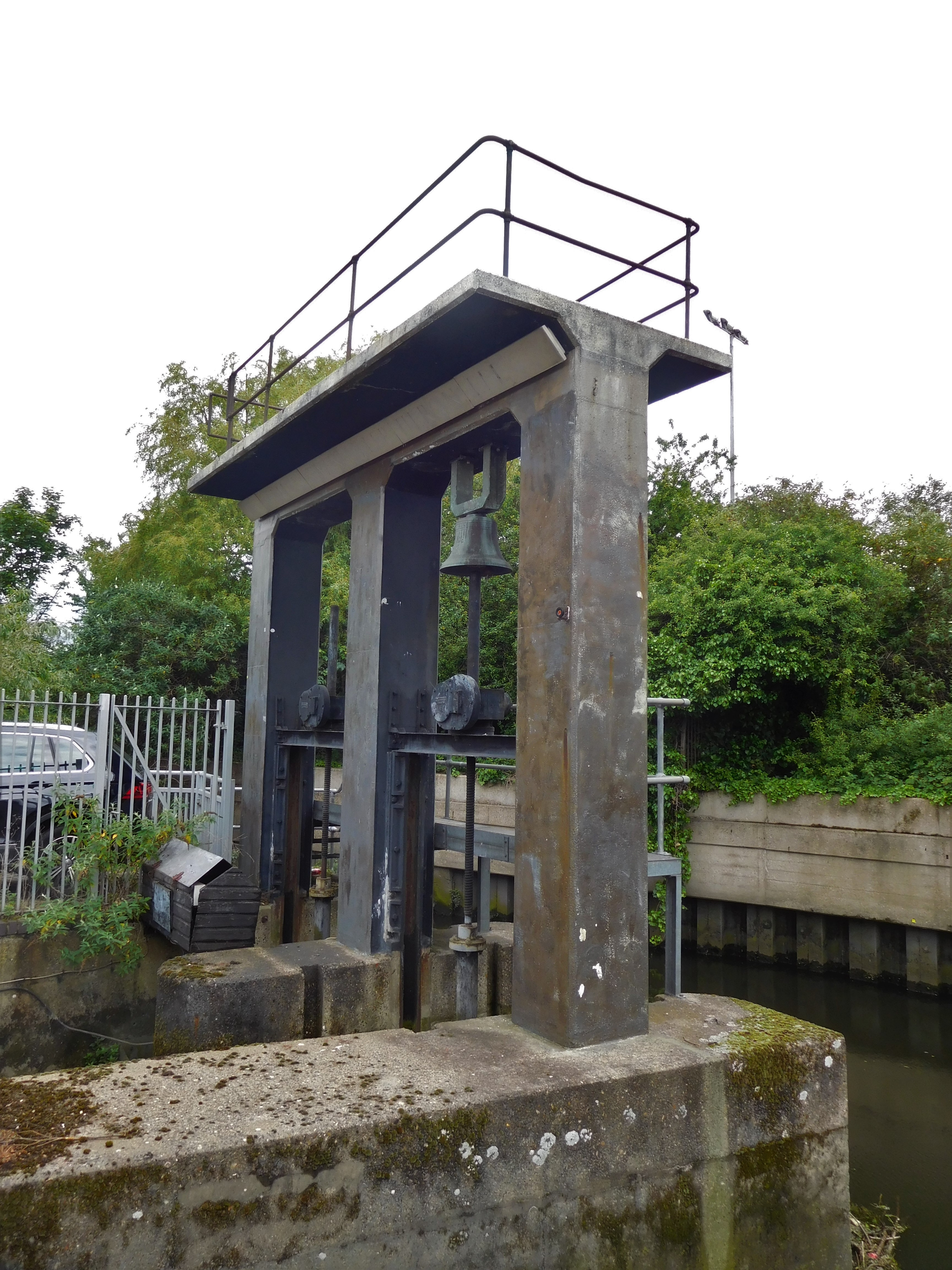 Tide bell that rings four times a day, on the Bell Lane Creek part of the river Wandle, a tributary of the River Thames in London